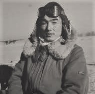 Masuomi iwamoto